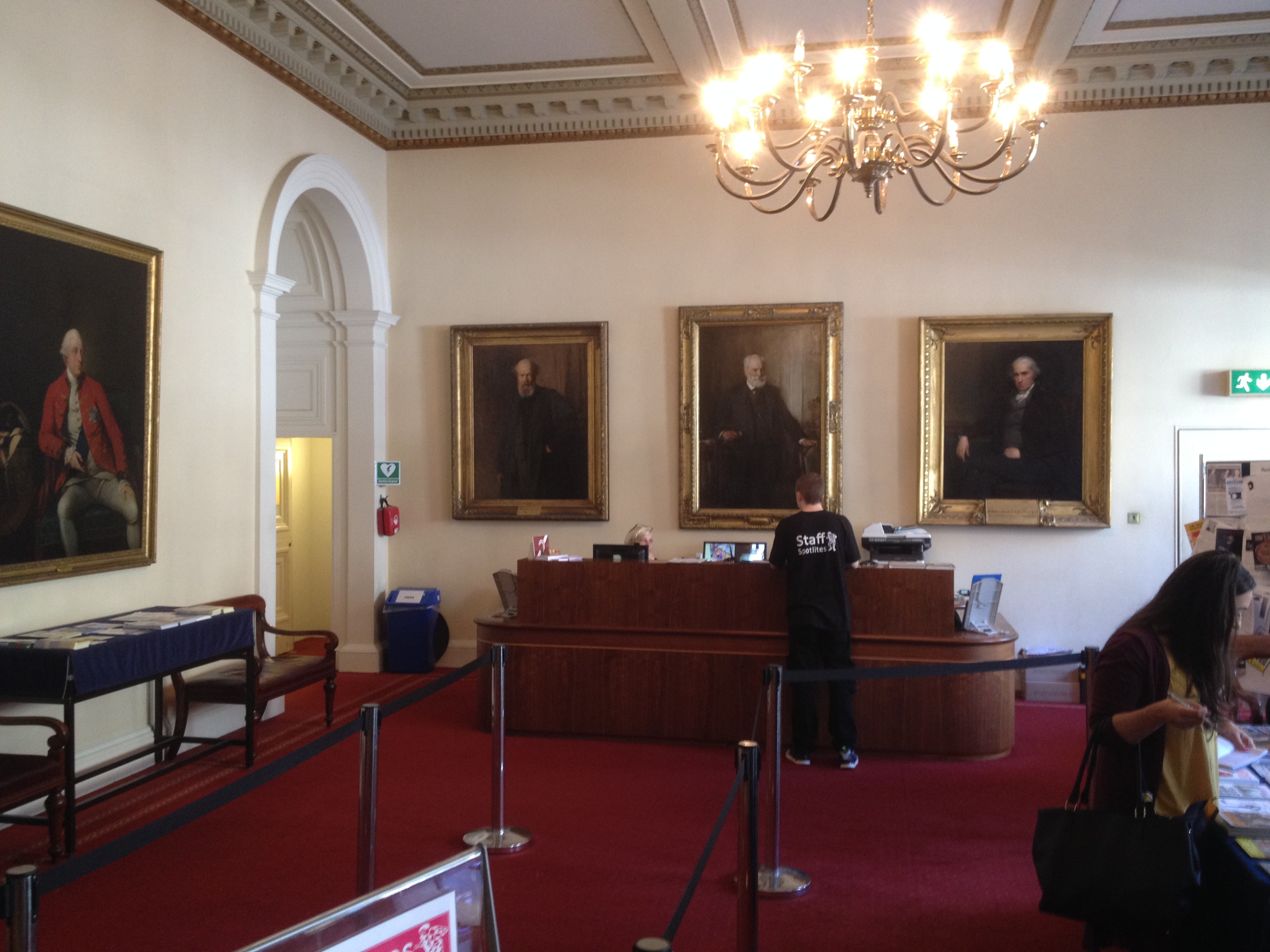 Front Hall of The Royal Society of Edinburgh building at 22-26 George Street, Edinburgh